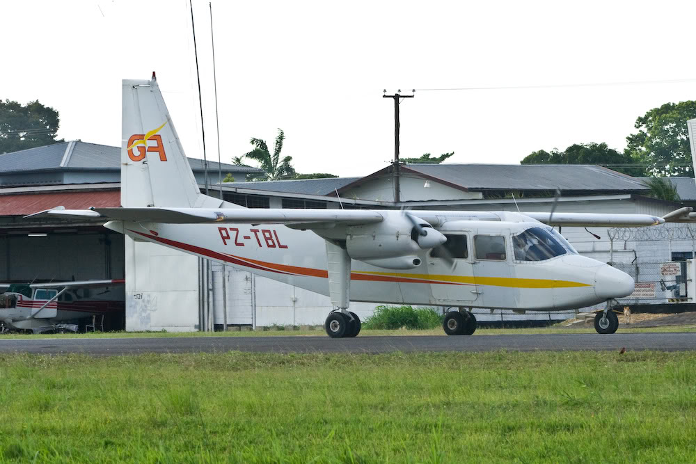 Gum Air Britten Norman BN2B-Islander PZ-TBL